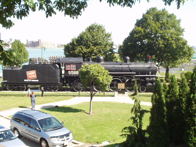 Spirit of Windsor, Canadian National Railway